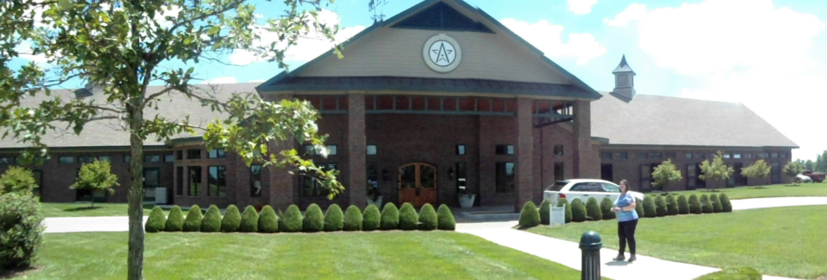 The main stallion barn at Winstar Farms hoses up to 18 stallions